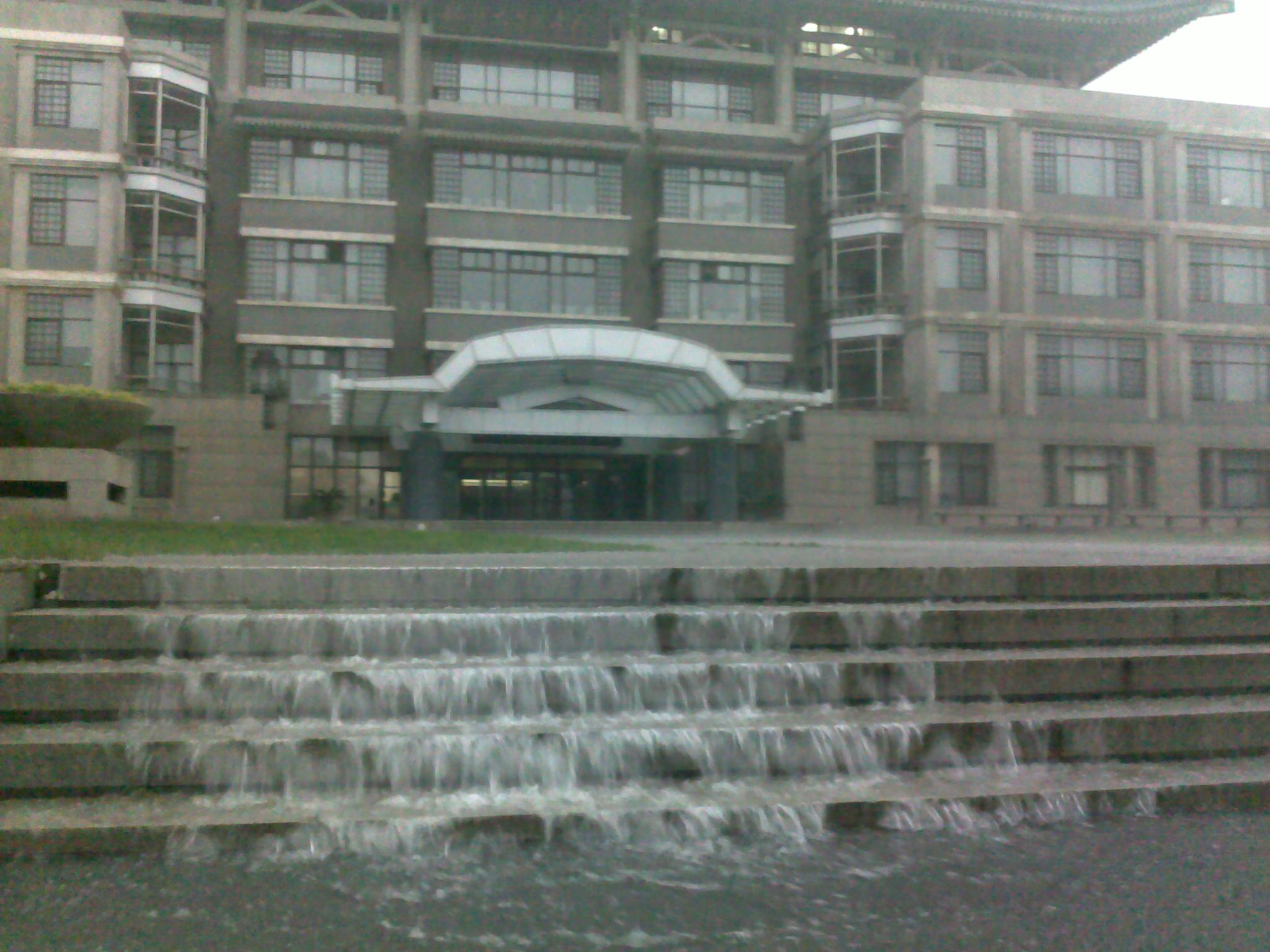 2012-07-21 Beijing flood at Peking University